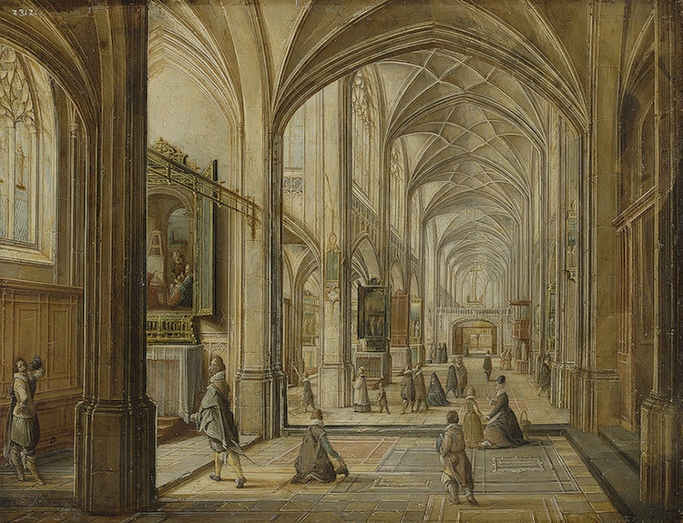 Interior of a Gothic Church